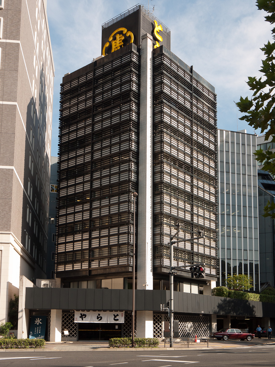 Toraya Confectionery former headquarters in Minato Ward, Tokyo, Japan